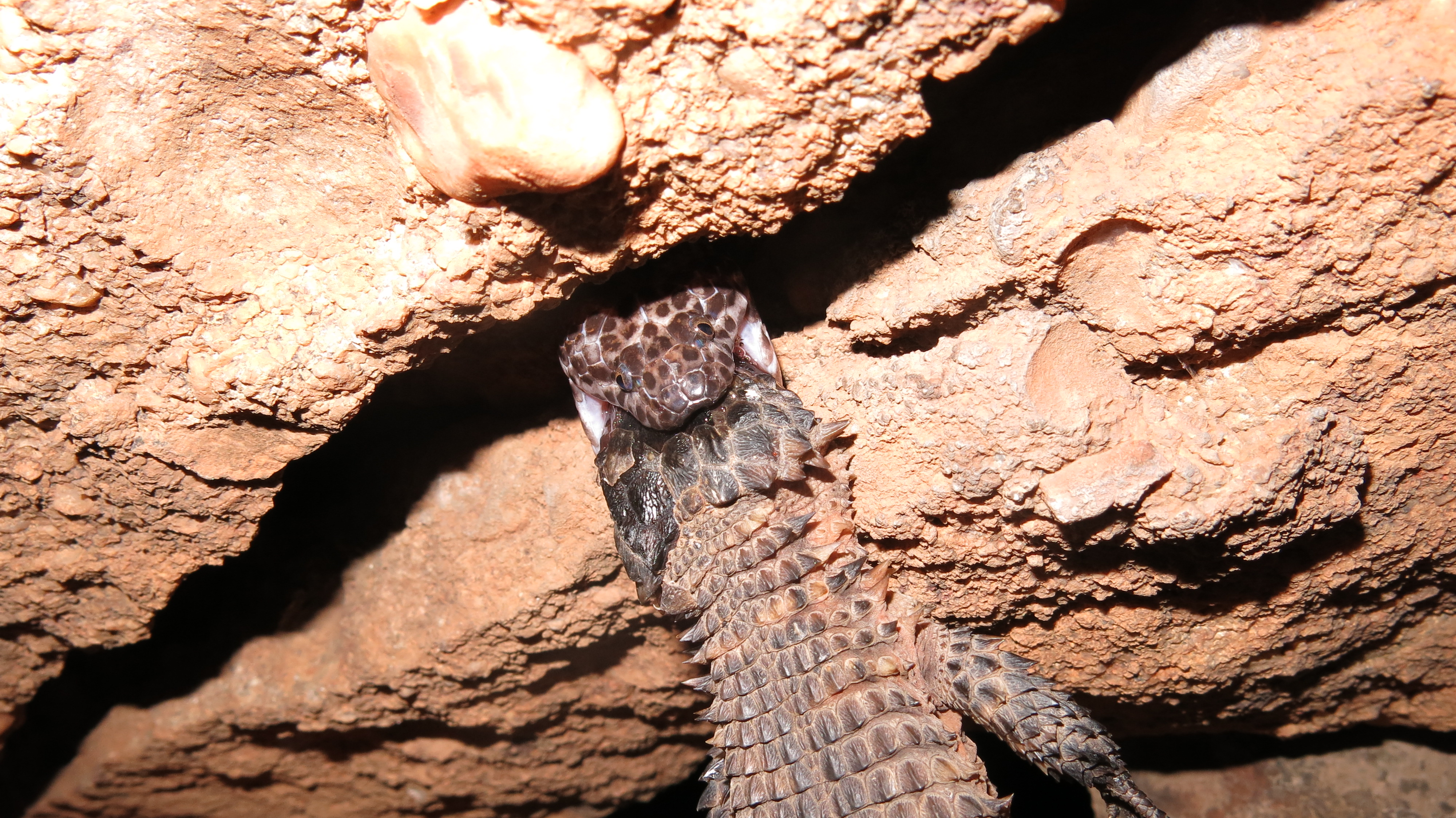 Lamprophis guttatus feeding on Smaug breyeri